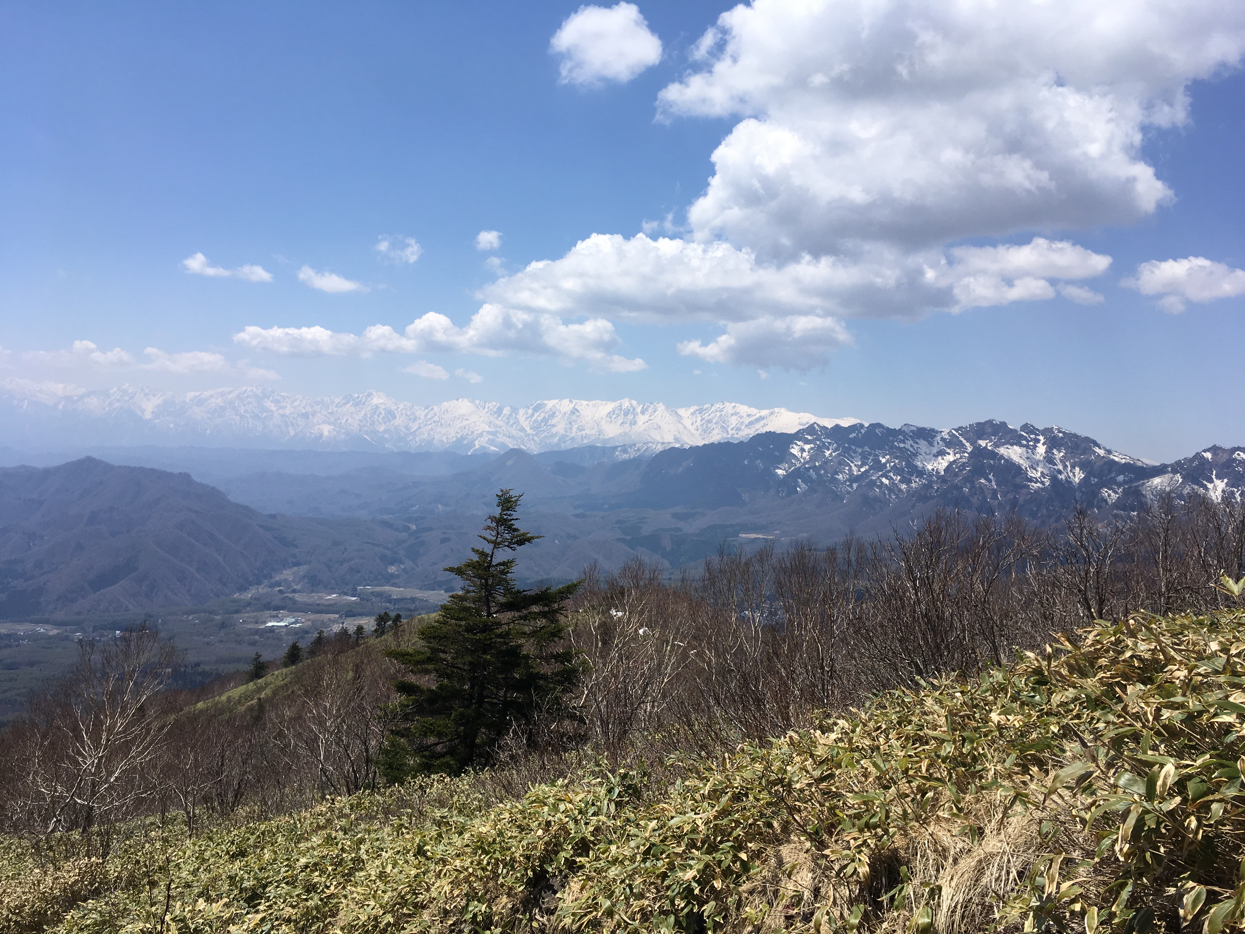 This is a photo of Nishidake and Honindake in the foreground (Myōkō-Togakushi Renzan National Park) and the snow-covered mountains of Hakuba Village in the background from Mt. Iizuna.